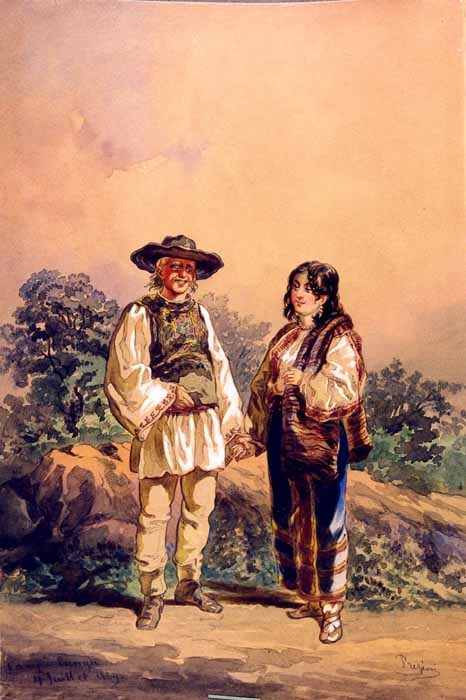 an aquarelle by Amedeo Preziosi